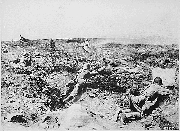 German troops fighting of a French attack during the First World War.